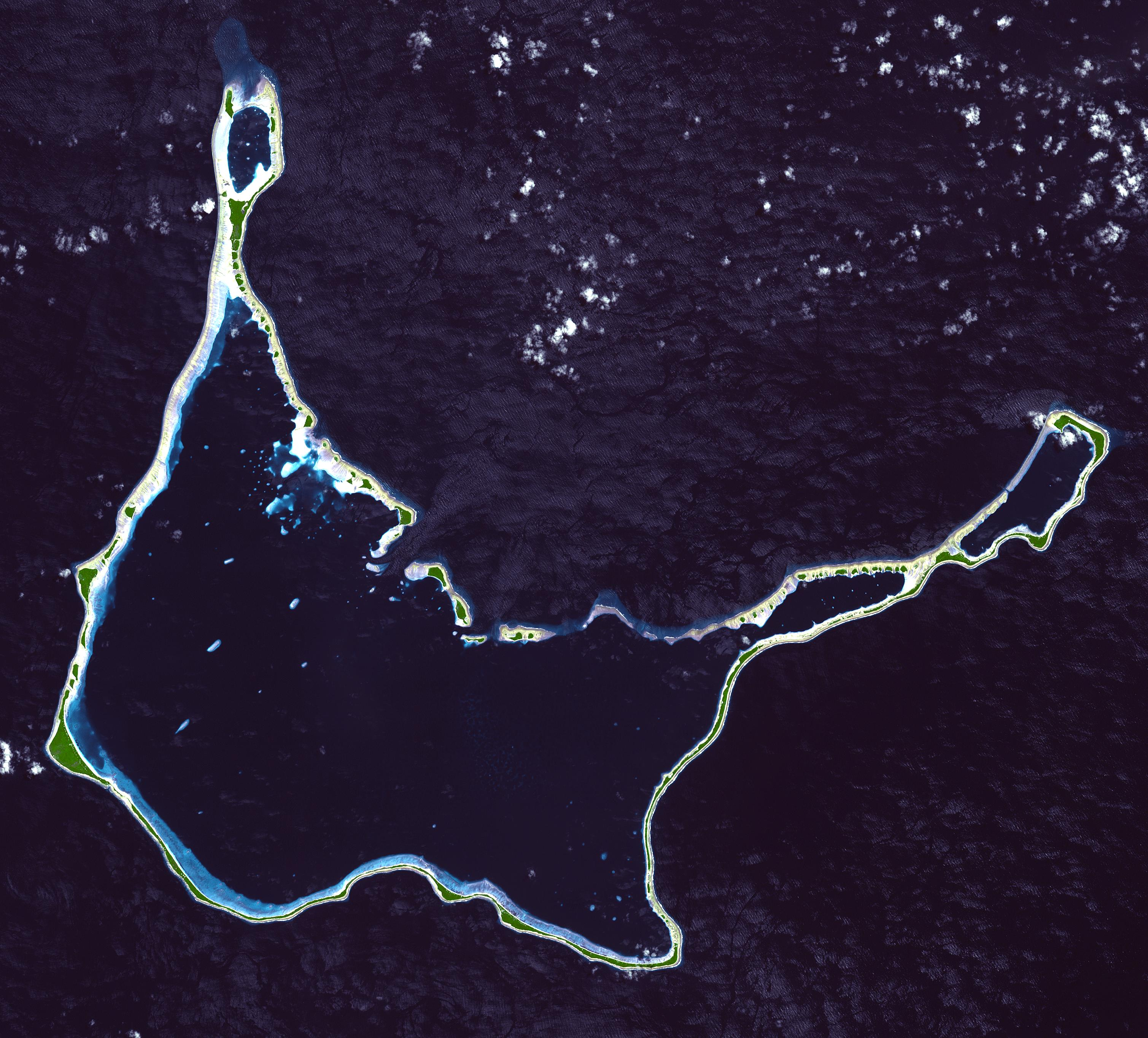 Satellite image of Arno Atoll, Marshall Islands